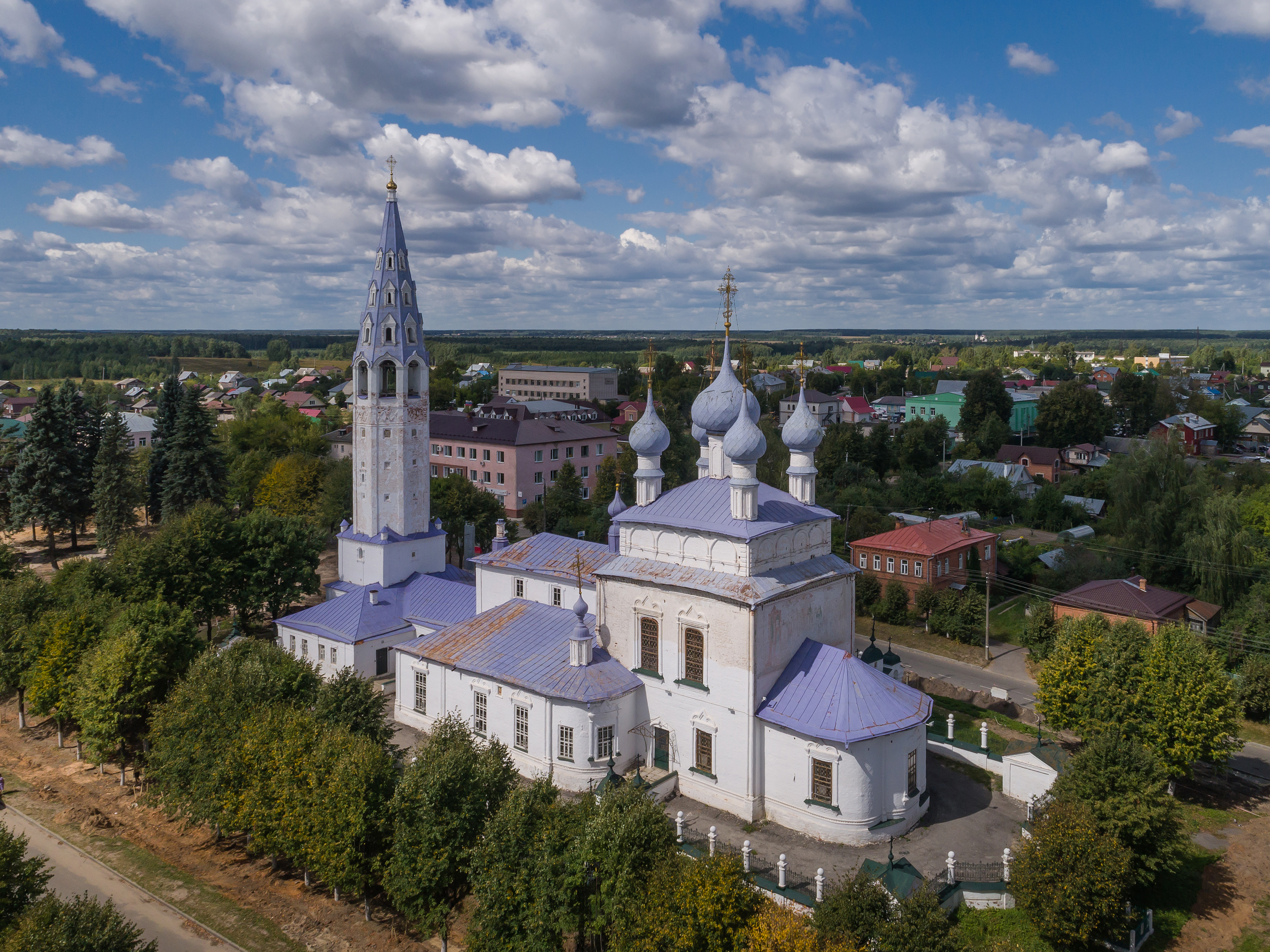 Aerial photo of Palekh, Ivanovo Oblast, Russia.